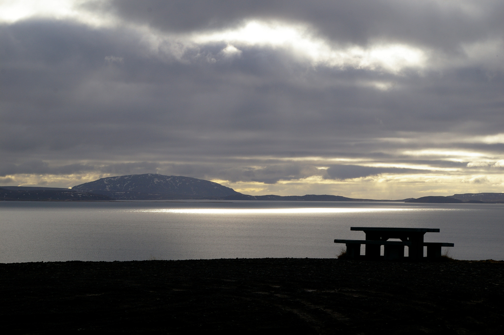 500px provided description: Iceland [#iceland]